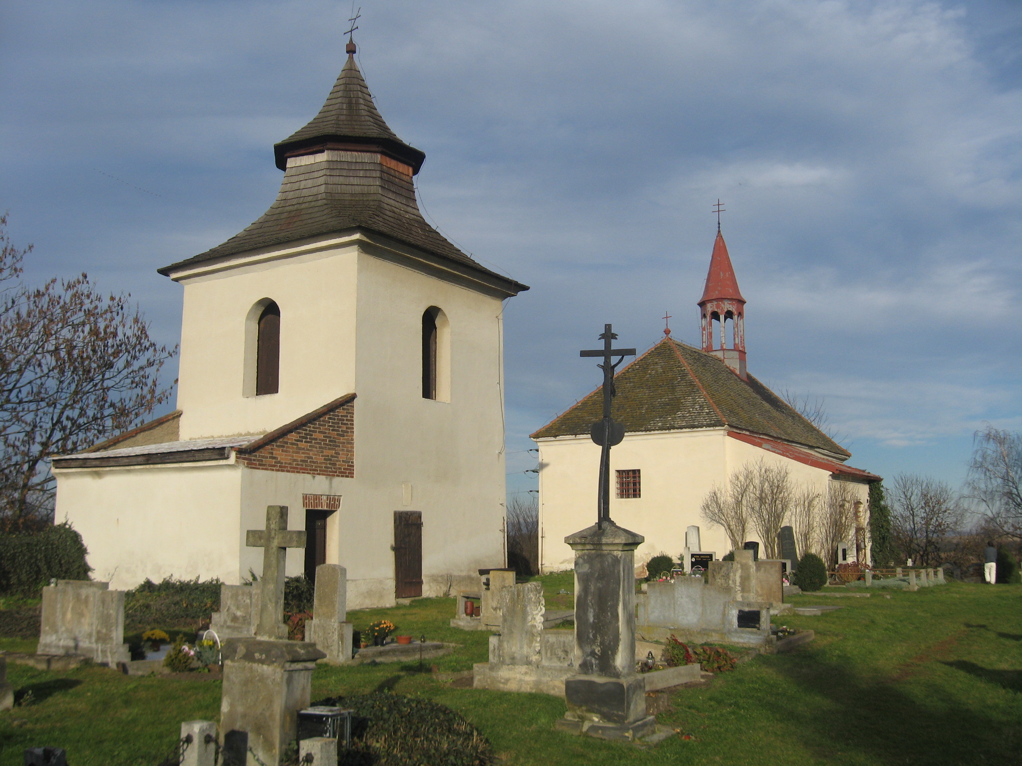 The Church of St. John the Baptist in Skupice, Czech Republic